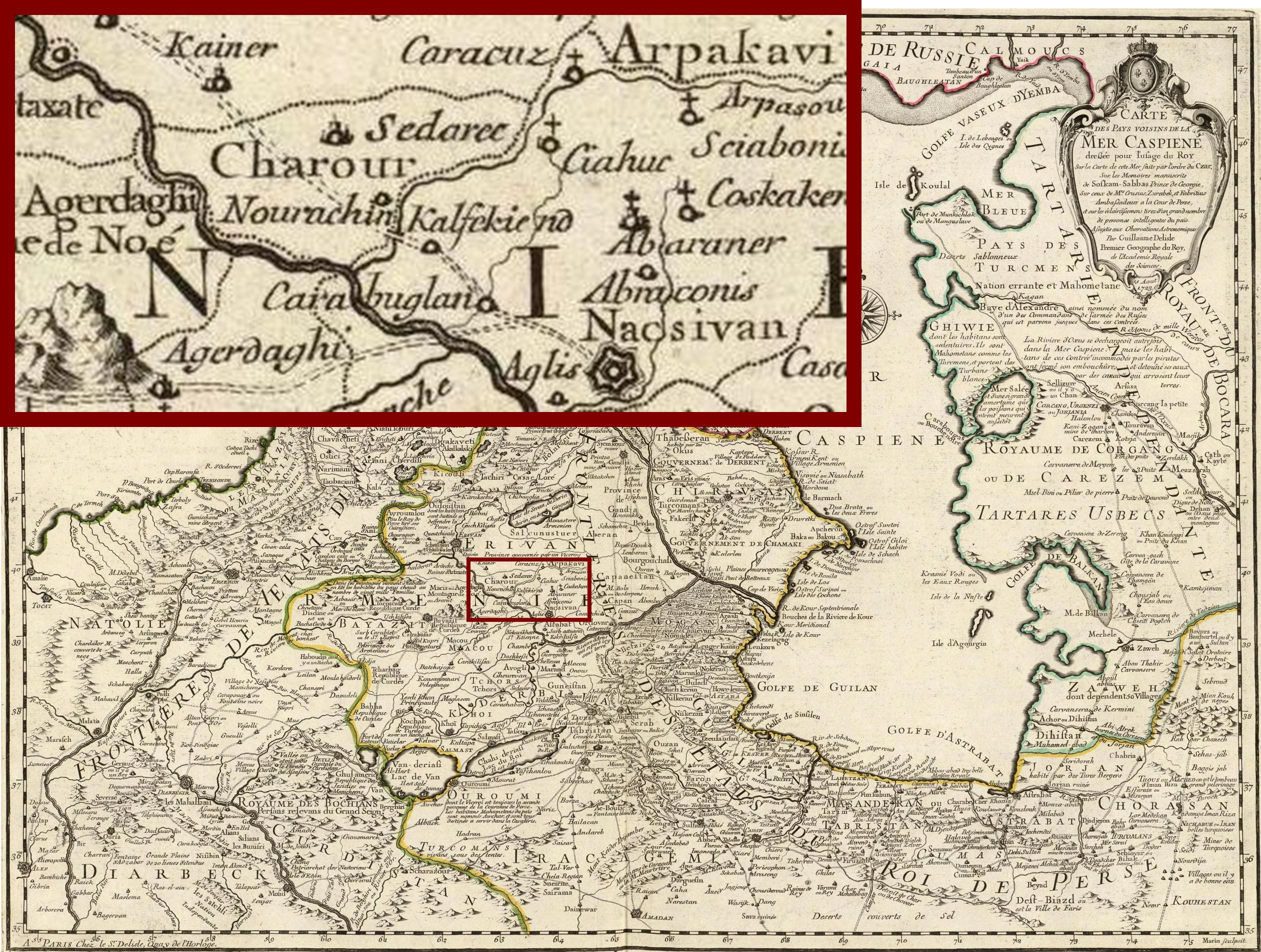 Charour on the map of Guillaume Delisle